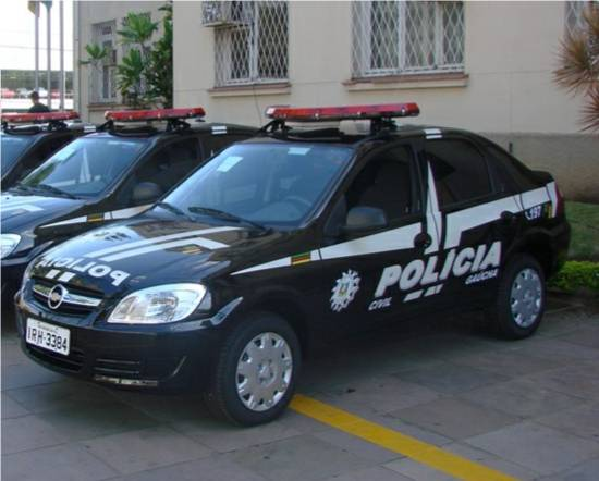 Police car of Rio Grande do Sul Civil Police - Brazil